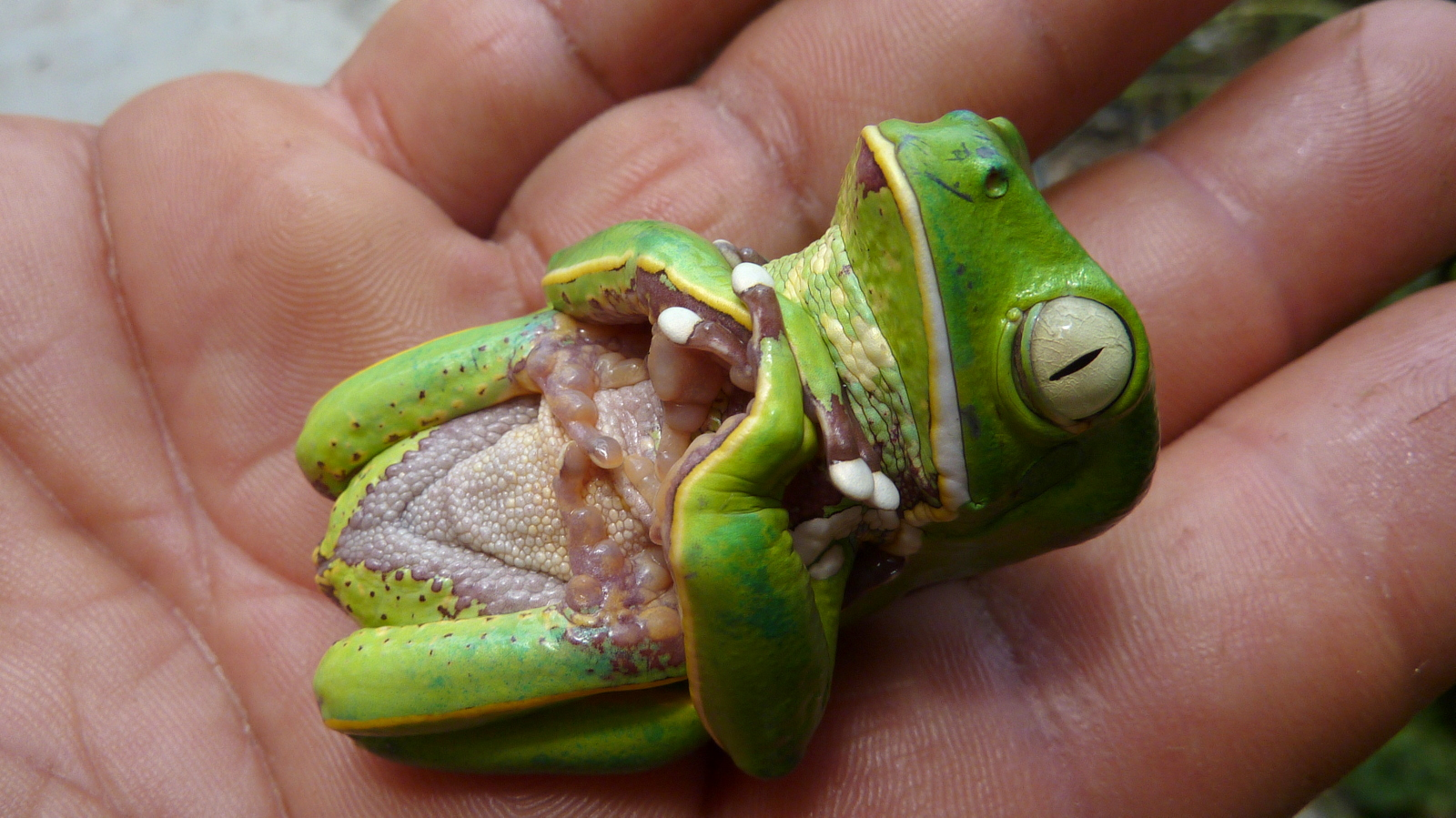 Phyllomedusa burmeisteri, playing dead. Bahia, Brazil.